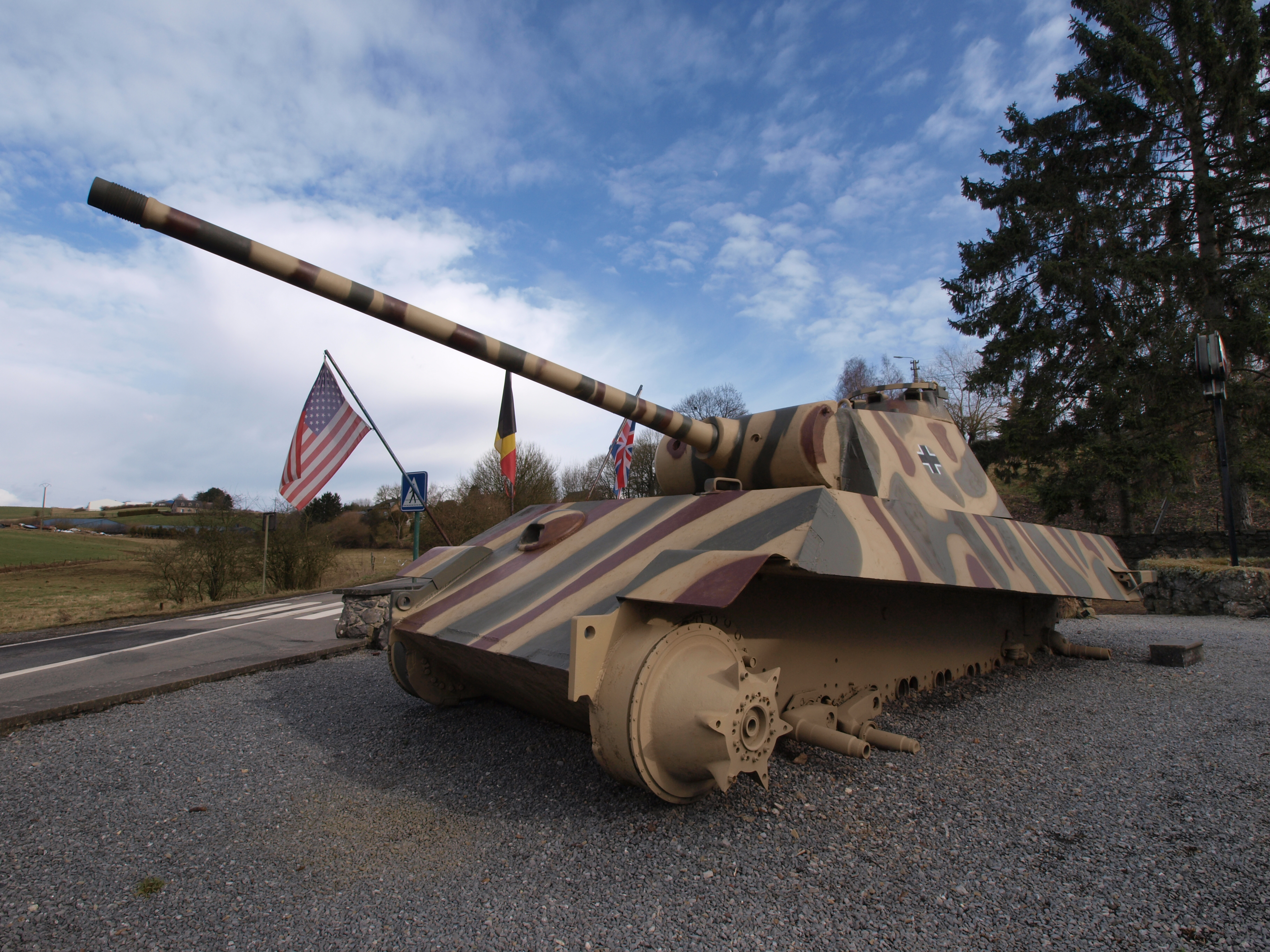 Panther type G (Sd.Kfz. 171) near Celles, Belgium